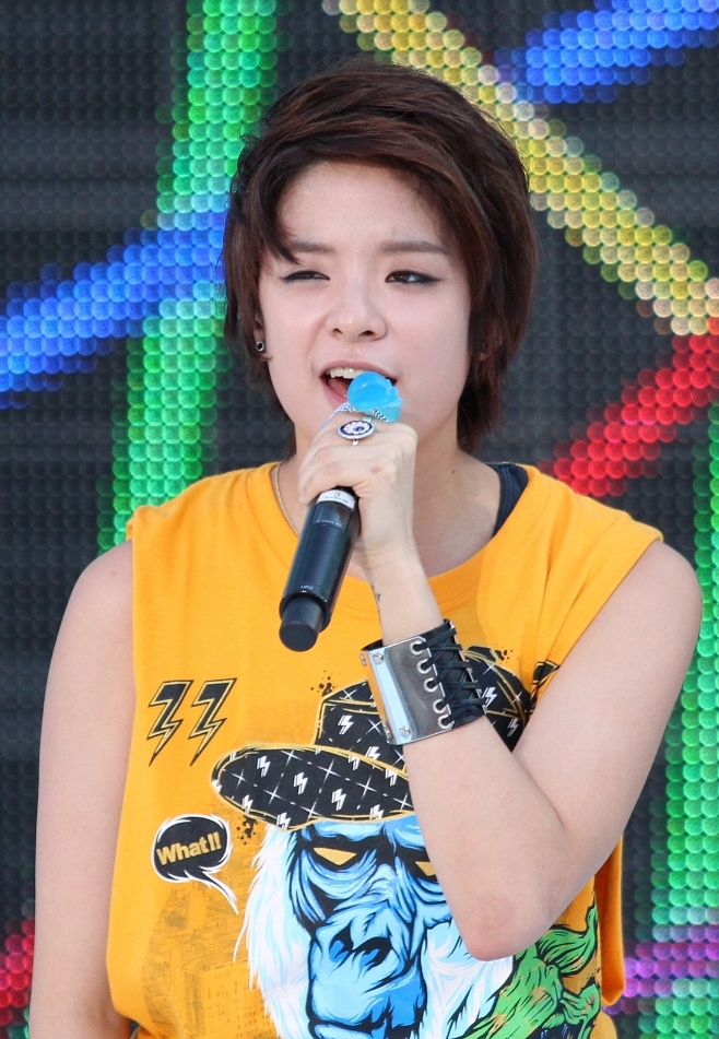 Amber Liu at the M Super Concert on July 28, 2012.Português do Brasil: Amber Liu no M Super Concert em 28 de julho de 2012.